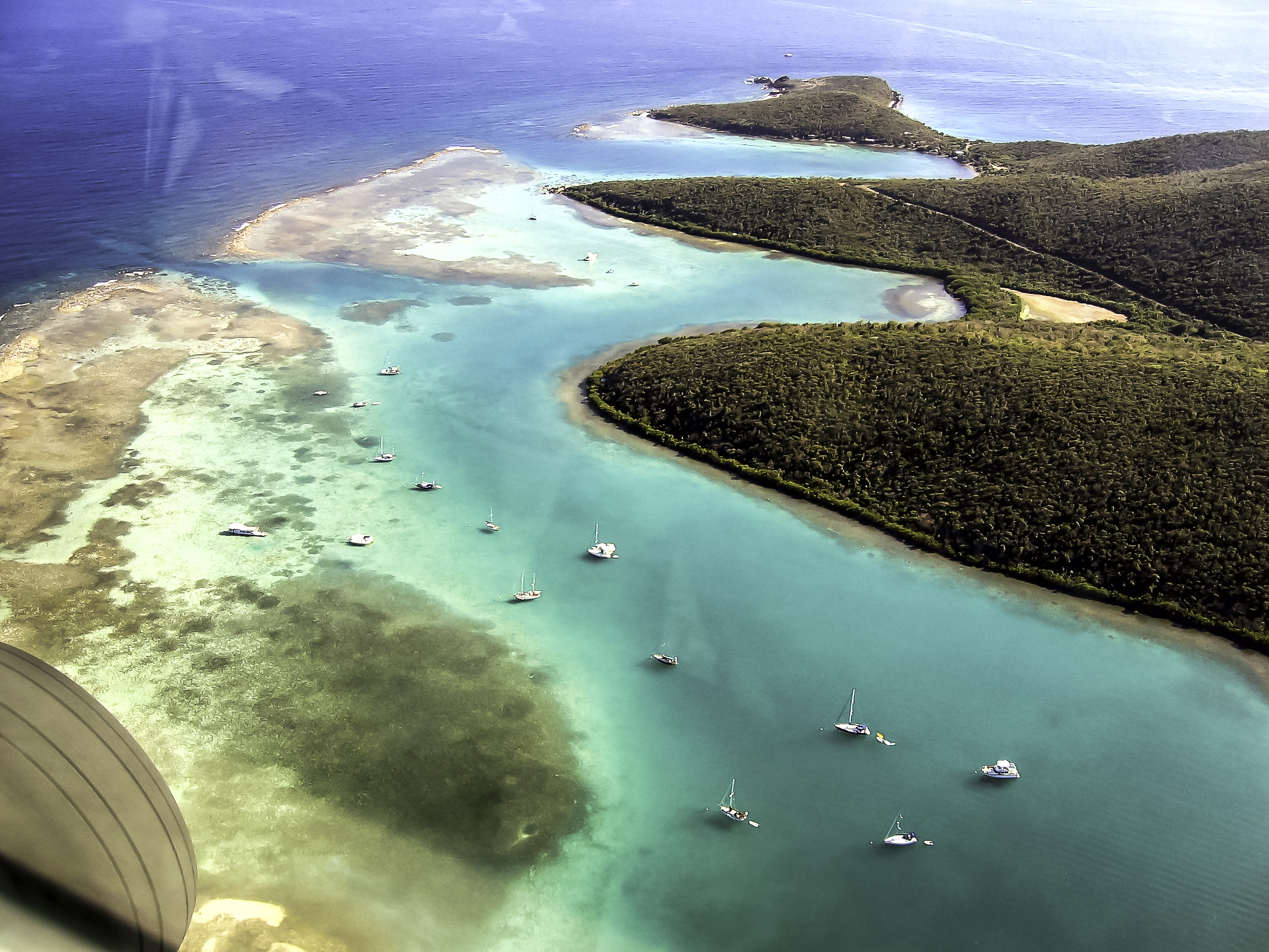 This is the entrance to the large Ensenada Honda on the Island of Culebra in Puerto Rico.